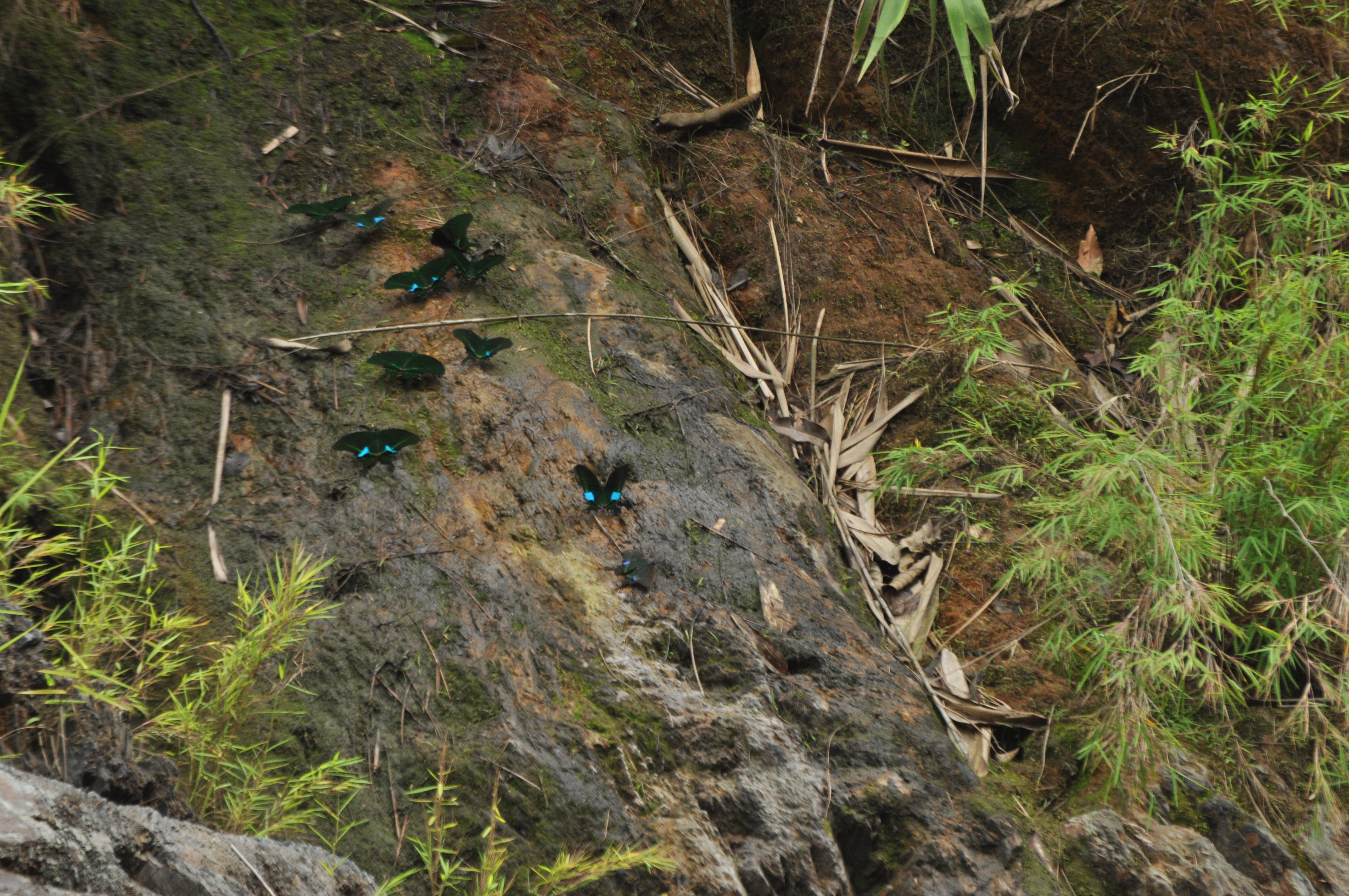 This image was taken in the project Wiki Loves Butterfly. Mud-puddling of Paris Peacock Papilio paris